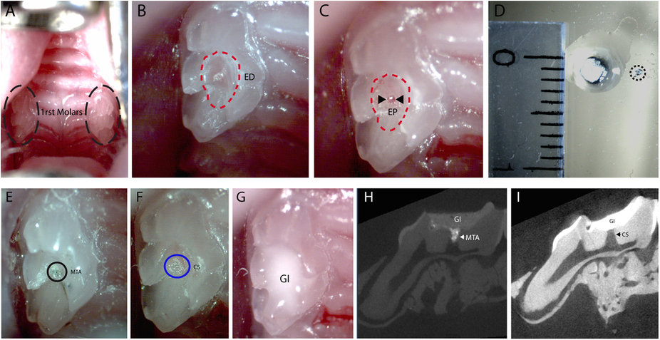 Injury and direct tooth capping A) photograph of upper first molars. (B) A 1/4 carbide burr cuts the tooth exposing the dentine until the roof of the pulp chamber (red dashed line). (C) Using a needle the dental pulp is exposed, indicated by the arrowheads. (D) The collagen sponge is soaked in drug and a small piece of it, indicated by the black dashed line, is removed for the direct capping. (E) The injury capped with MTA. (F) The sponge piece condensed inside the exposed pulp area. (G) The tooth is then sealed with glass ionomer until the date of collection. (H) MicroCT image right after capping showing the close contact of MTA (RO area indicated by arrow) with the dental pulp and the glass ionomer sealing. (I) MicroCT image right after capping showing the close contact of the collagen sponge (RL area indicated by arrow) with the dental pulp and the glass ionomer sealing. ED, exposed dentine; EP, exposed pulp; CS, collagen sponge; GI, glass ionomer; RO, radiopaque; RL, radiolucent. source : From: Promotion of natural tooth repair by small molecule GSK3 antagonists